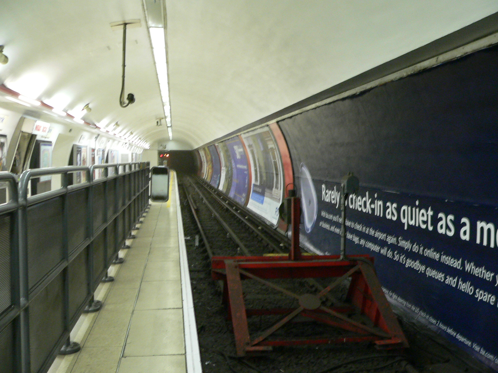 An unoccupied Waterloo and City Line platfrom at Bank station on the London Underground.